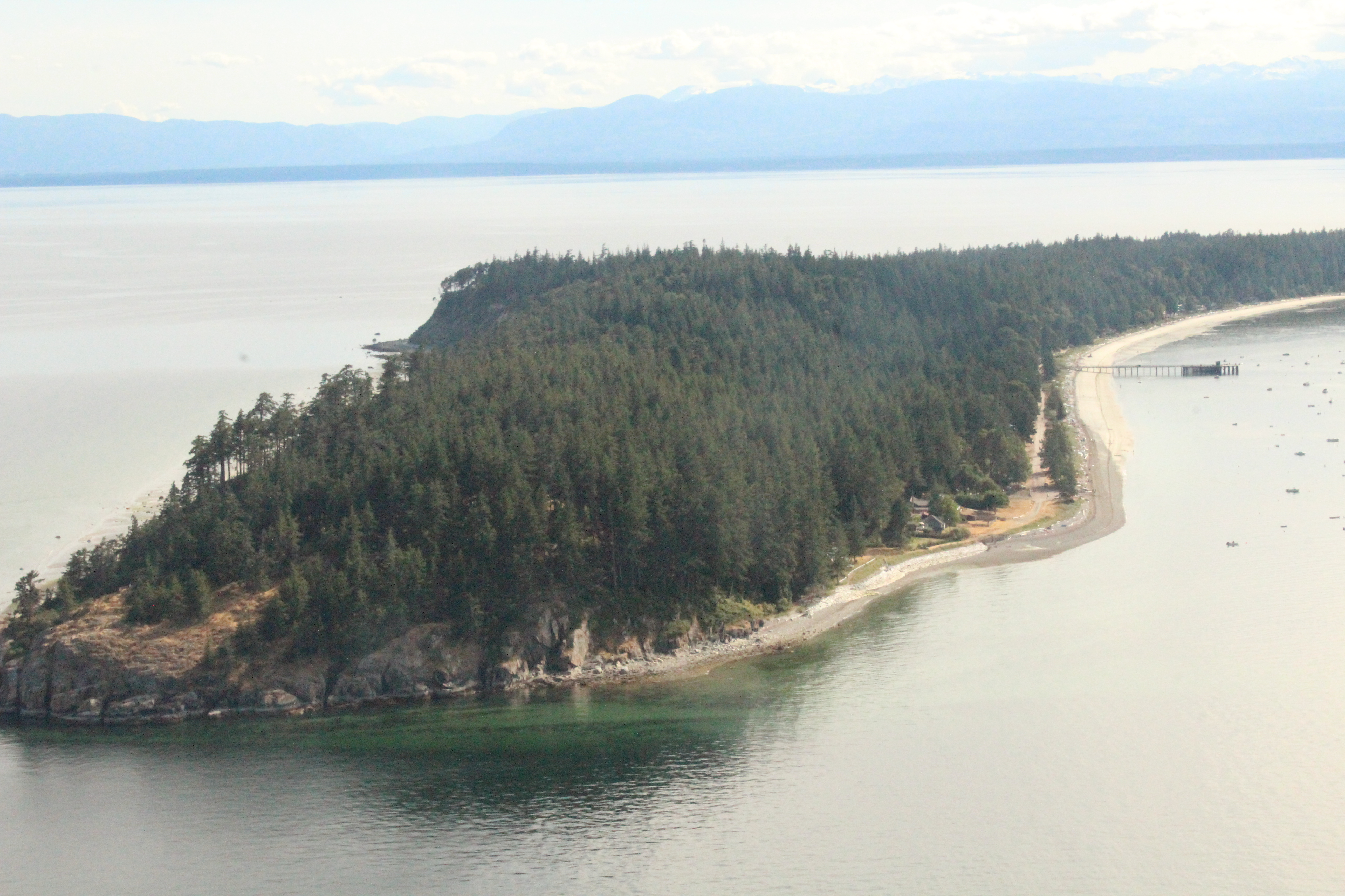 Savary Island from a seaplane